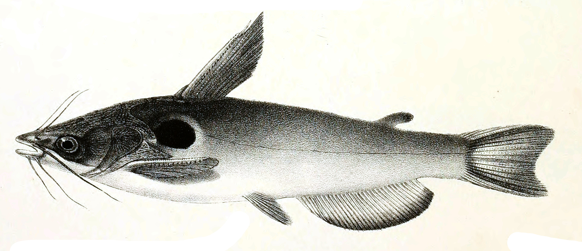 Horabagrus brachysoma syn. Macrones chryseus The species names / identity need verification. The original plates showed the fishes facing right and have been flipped here. Macrones chryseus